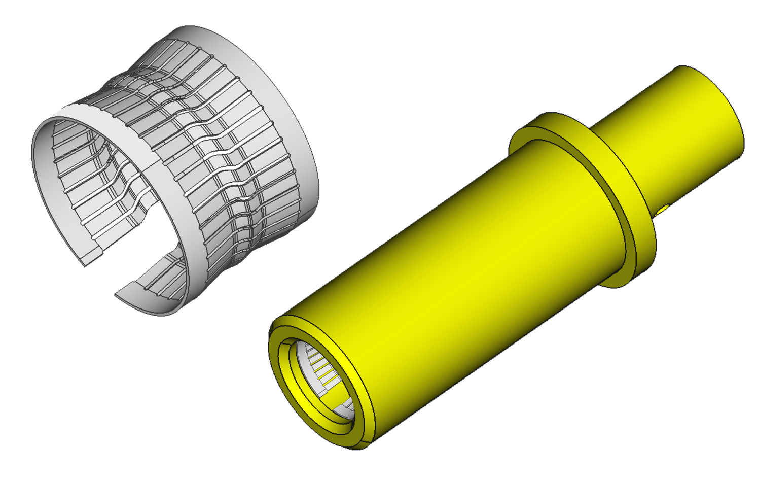 Render of a typical Crownspring Connector